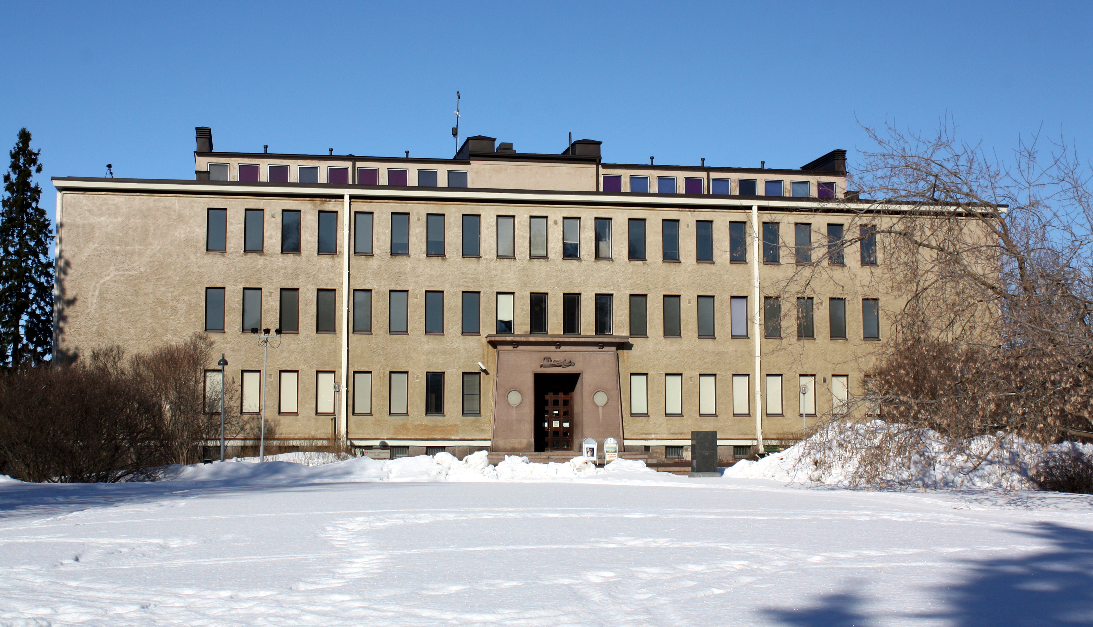 The Northern Ostrobothnia museum in Oulu.